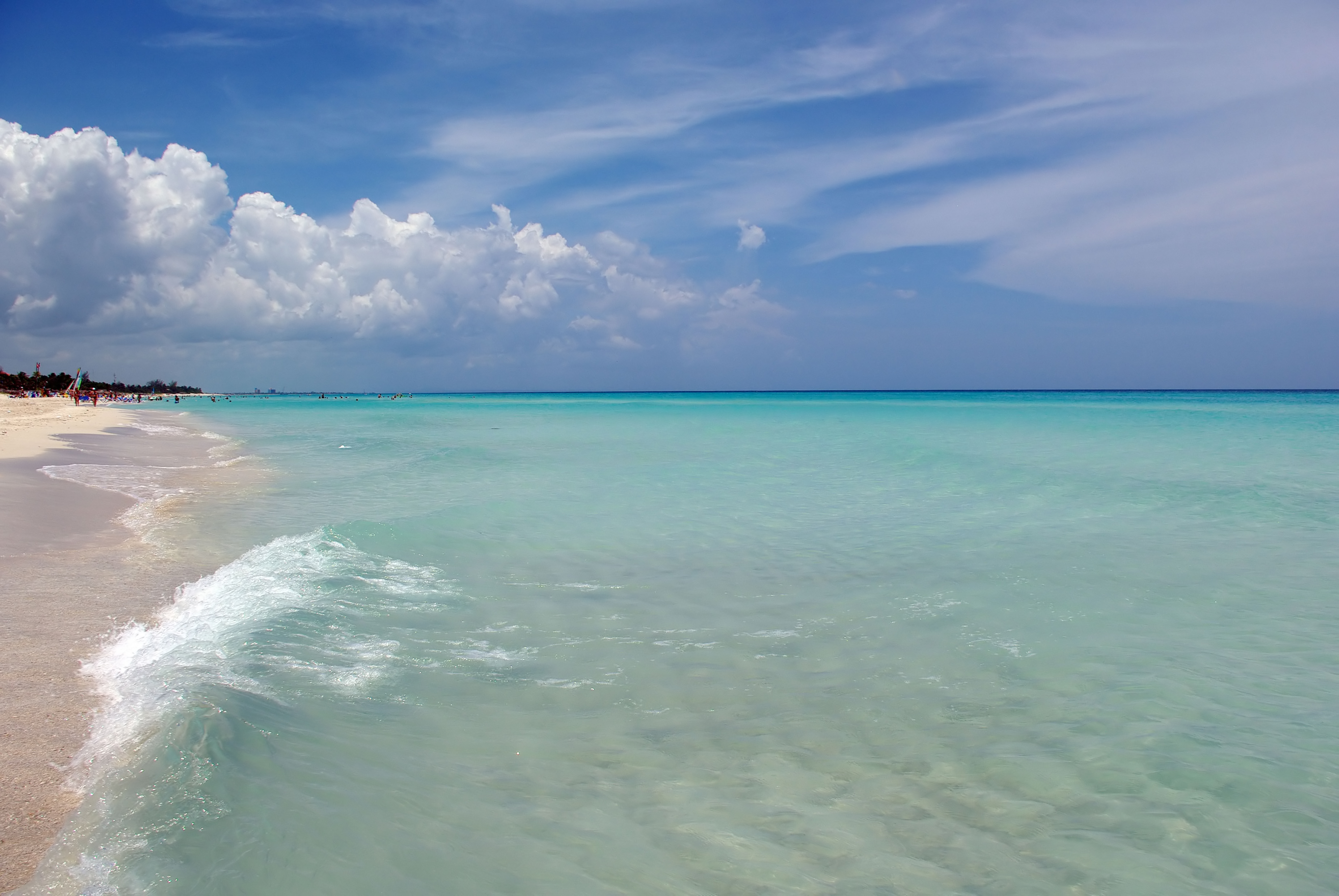 Beach in Varadero, Cuba.